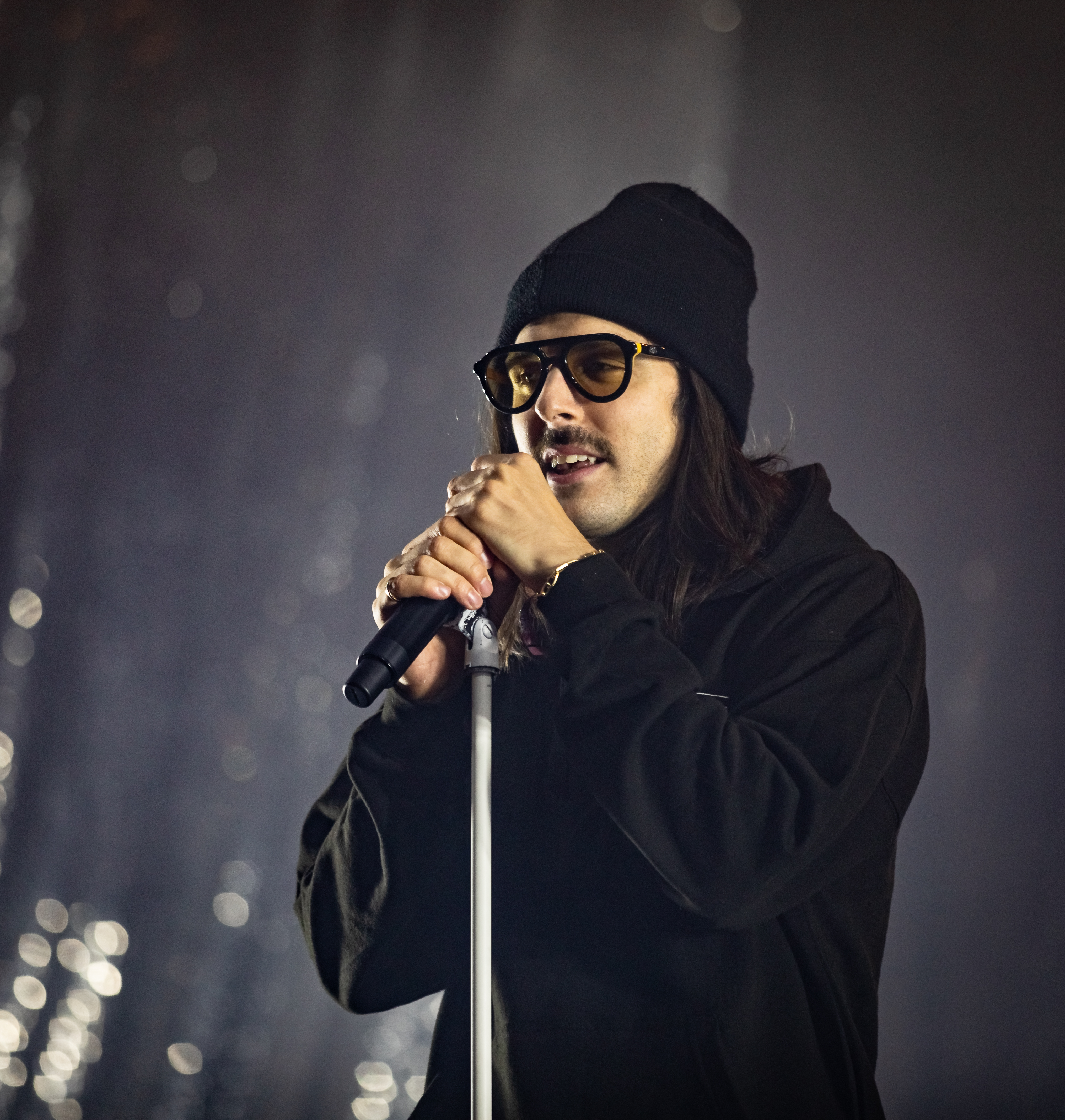 Left Boy - Rock am Ring 2019